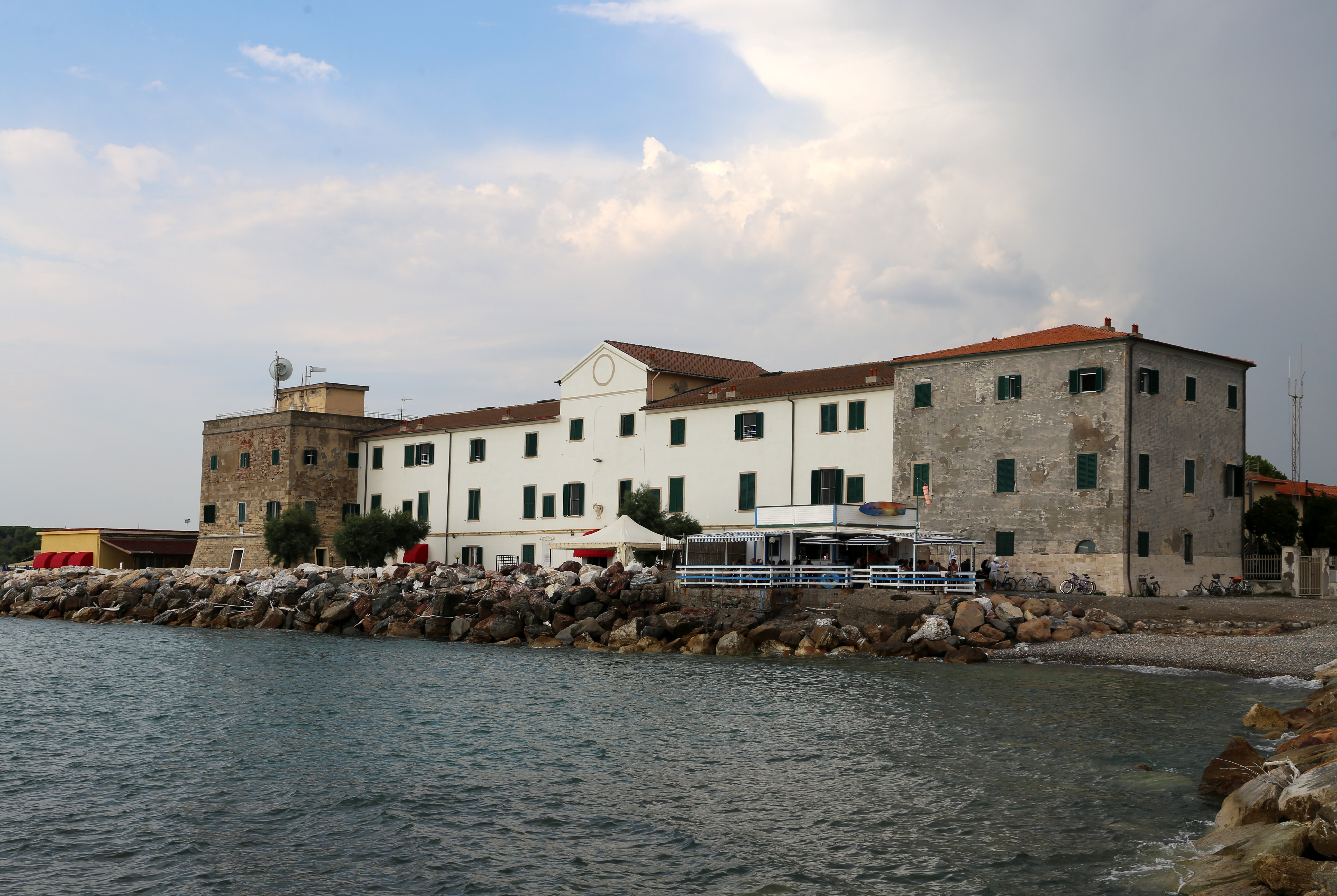 Buildings in Cecina